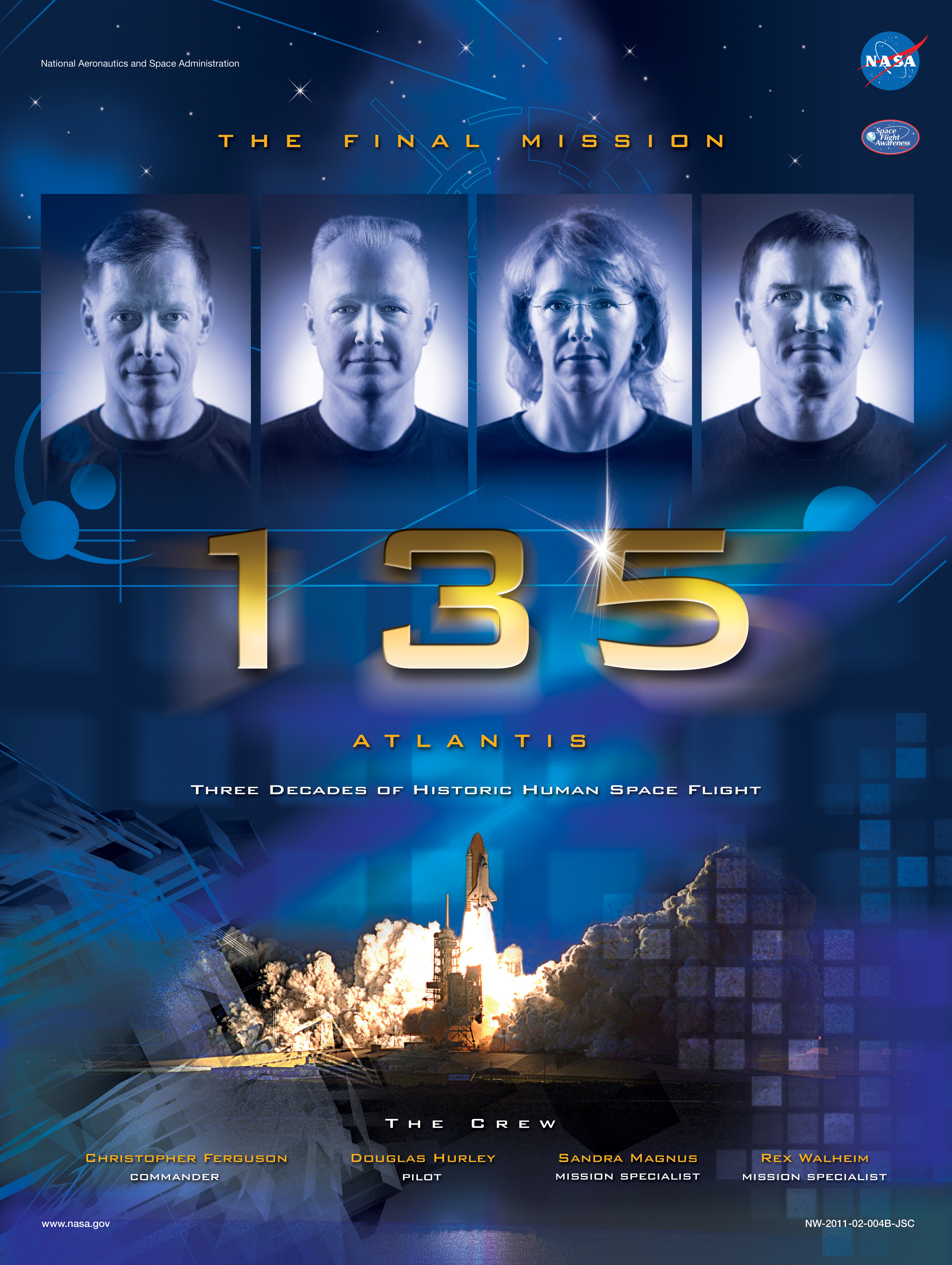 Official crew poster - STS 135